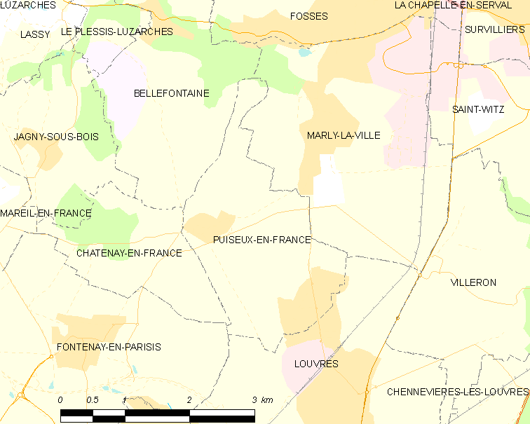 Map of French municipality Puiseux-en-France